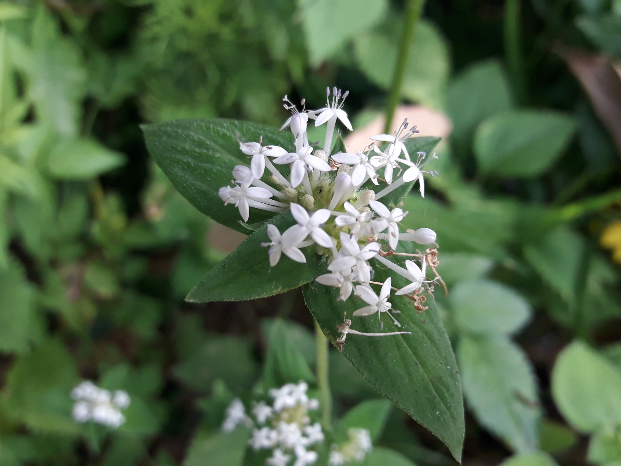 Crusea longiflora. Species of plant.